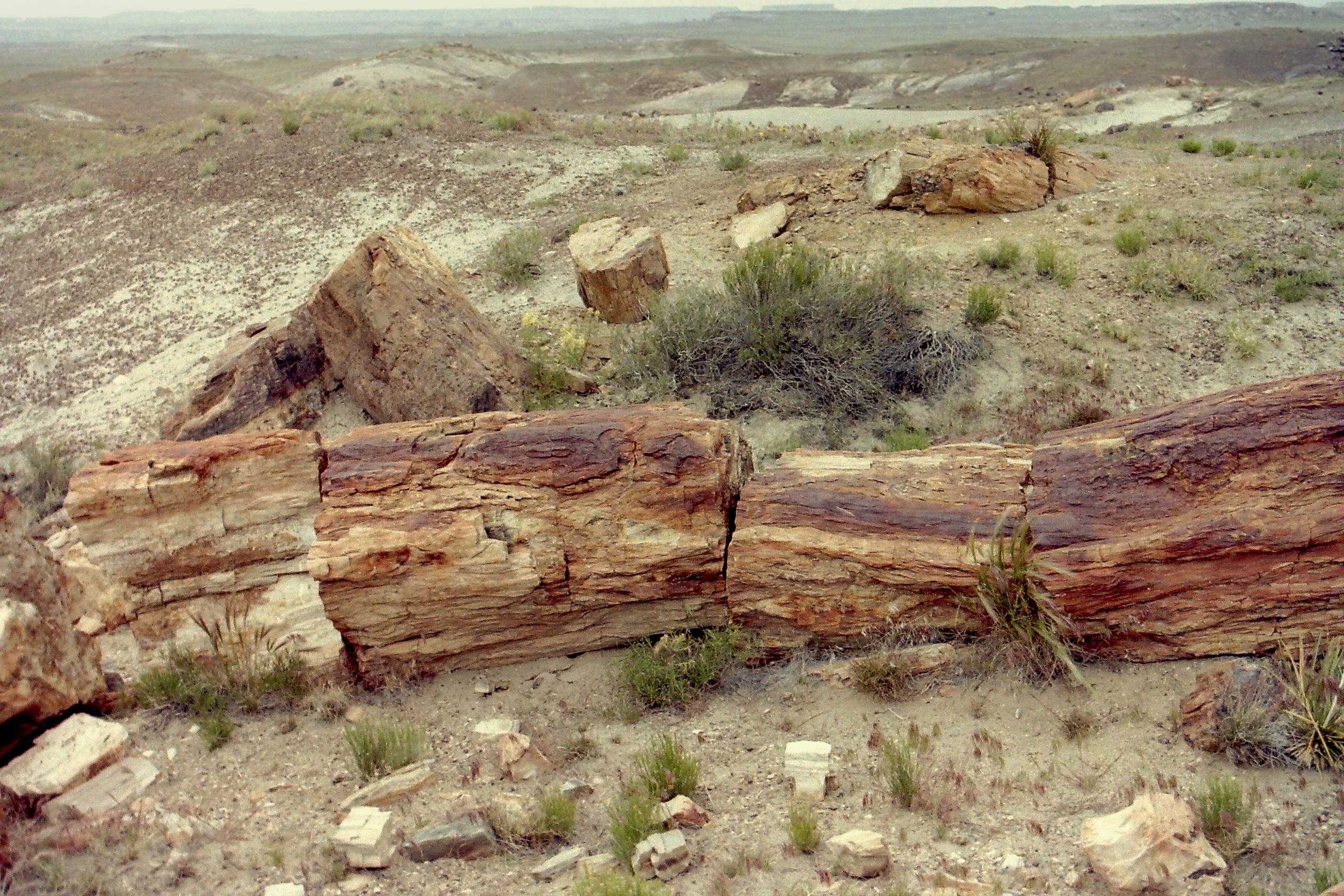 The Petrified Forest National Park is located in northeastern Arizona, United States. View to petrified logs at Giant Logs.